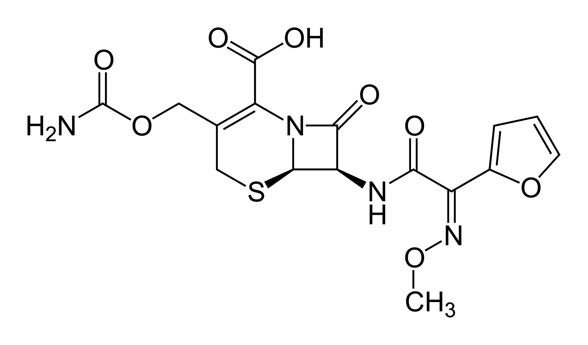 Skeletal formula of the cefuroxime molecule, C16H16N4O8S. Structure determined by X-ray crystallography in PDB 1QMF.